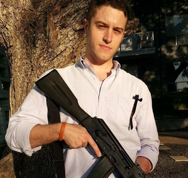 Portrait of Cody Wilson in Austin, Texas in 2012